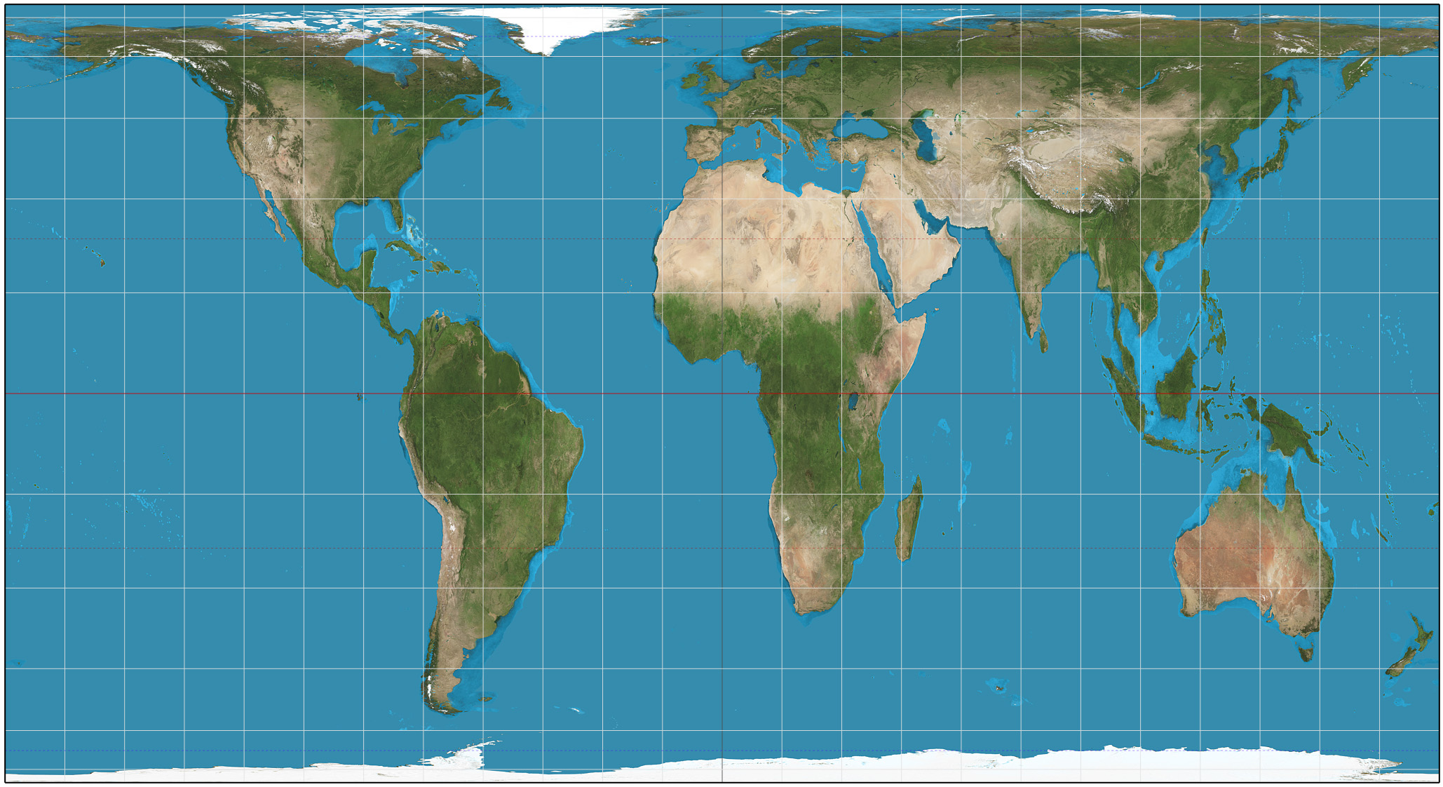 The world on cylindrical equal-area projection. 15° graticule, standard parallels 40°N/S. Imagery is a derivative of NASA’s Blue Marble summer month composite with oceans lightened to enhance legibility and contrast. Image created with the Geocart map projection software.